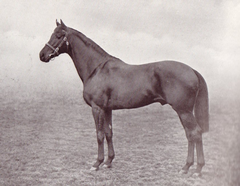 Cameronian, 1932 Epsom Derby winner.